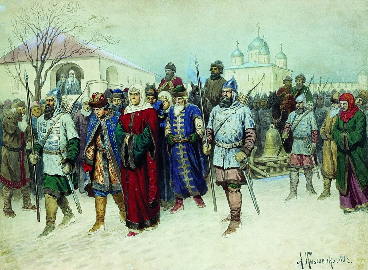 Martha the Mayoress escorted to Moscow, Followed by the Veche Bell, by Aleksey Kivshenko (1851-96)